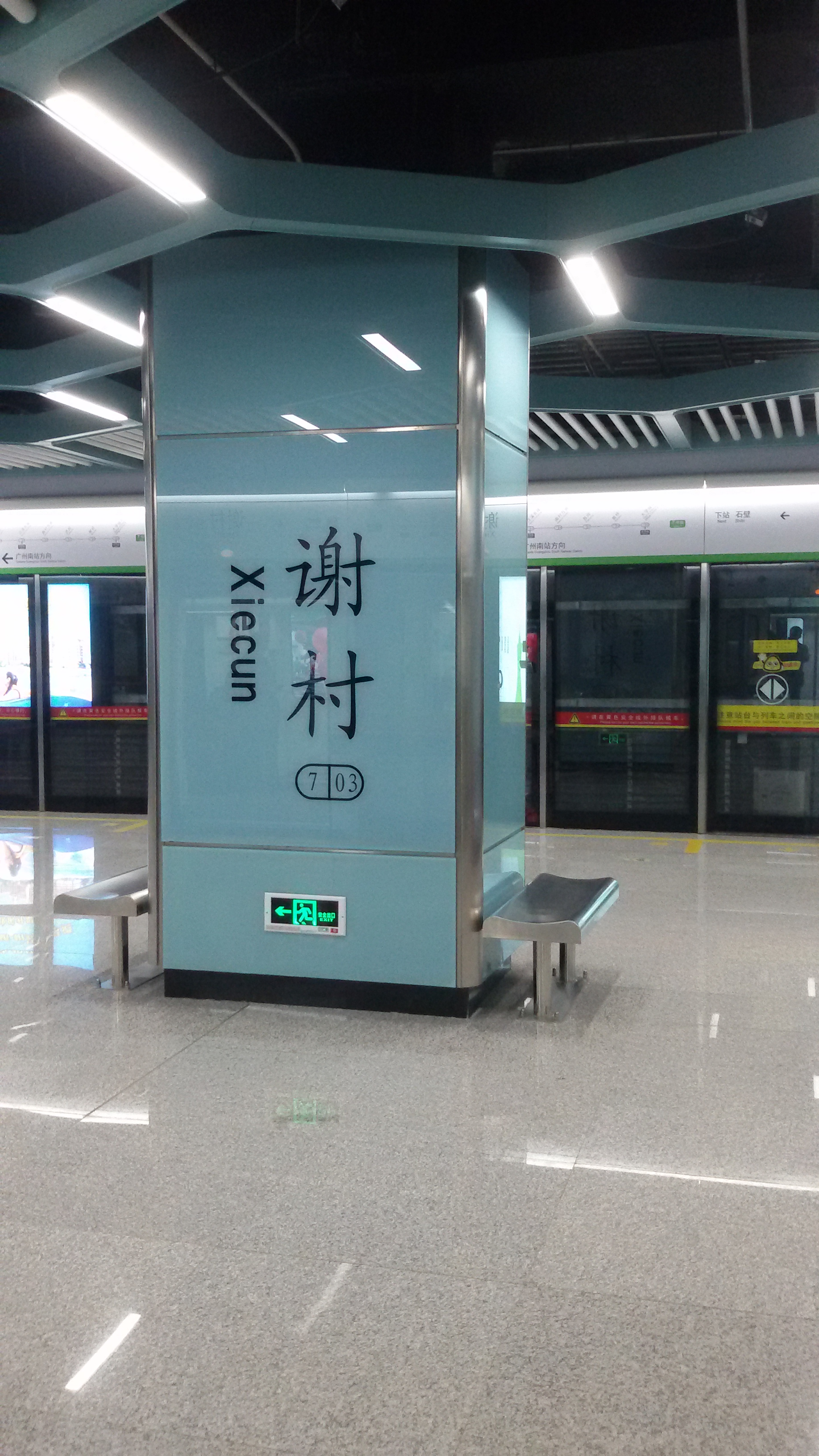 WORD on PILLAR for Xiecun Station in Guangzhou Metro